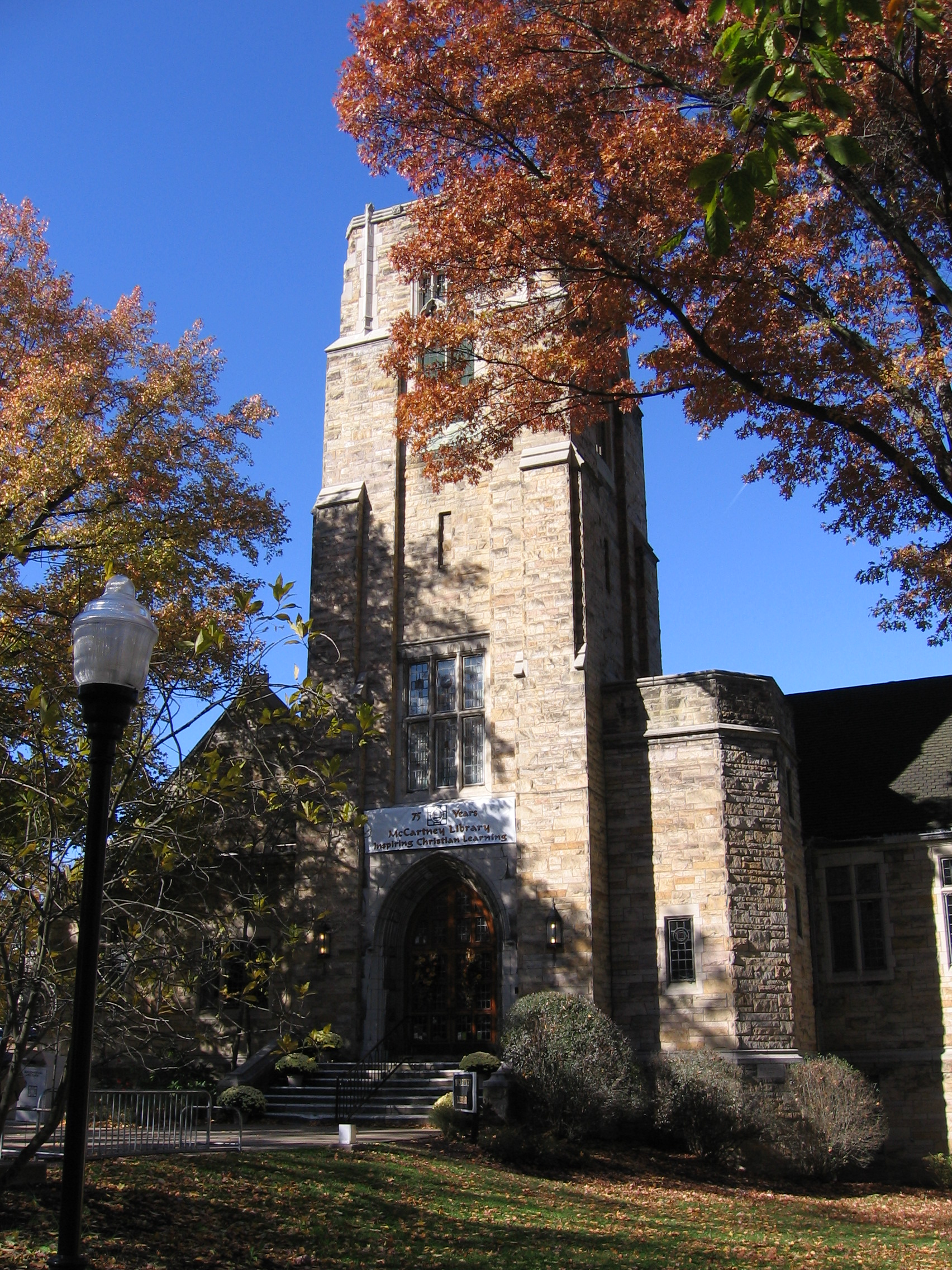 Front of McCartney Library on the campus of Geneva College in College Hill, Beaver Falls, Pennsylvania, United States. Built in 1930, it was named for the family of Clarence Macartney.